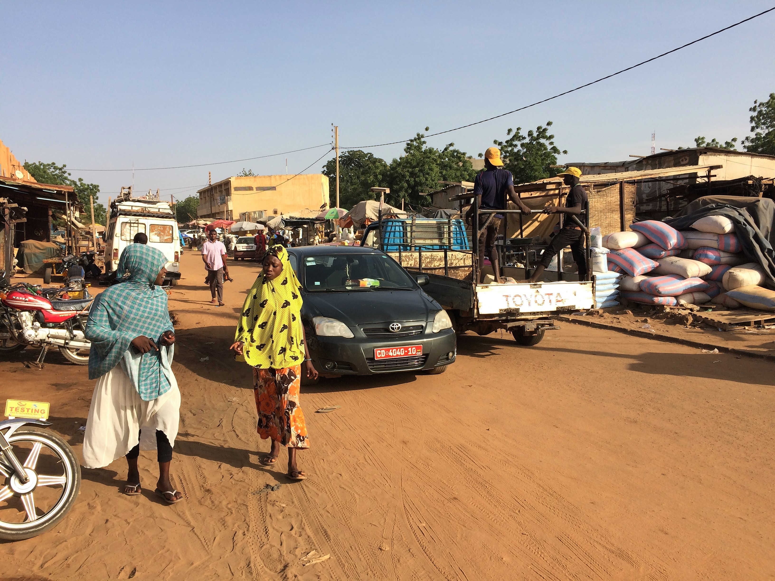 The Rue du Nigéria (Rue NM-4) in the 'Nouveau Marché' neighborhood in Niamey, Niger.